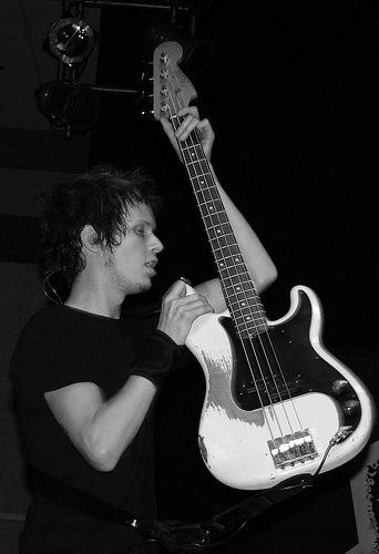 Sum 41 performs on September 20 @ the University of Mb